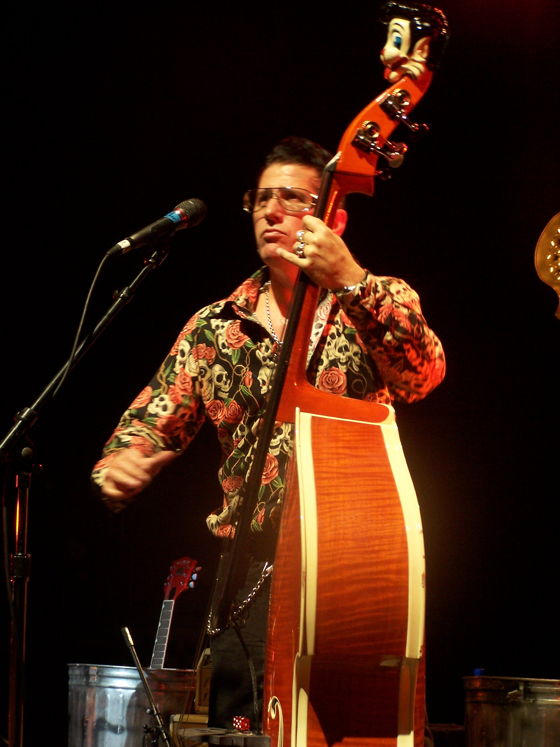 Lee Rocker at Uptown, Kansas City MO